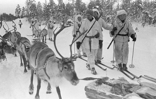 Reindeer patrol in Jäniskoski in the Finnish Winter War.